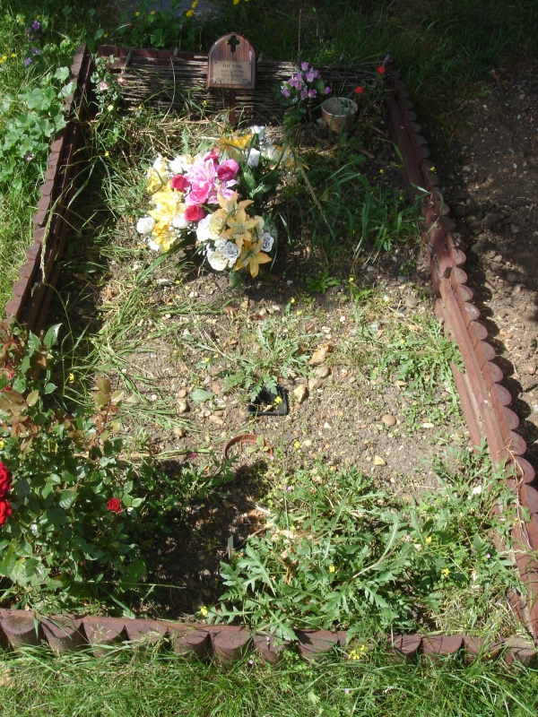 Grave of Tim Rose, Brompton Cemetery.